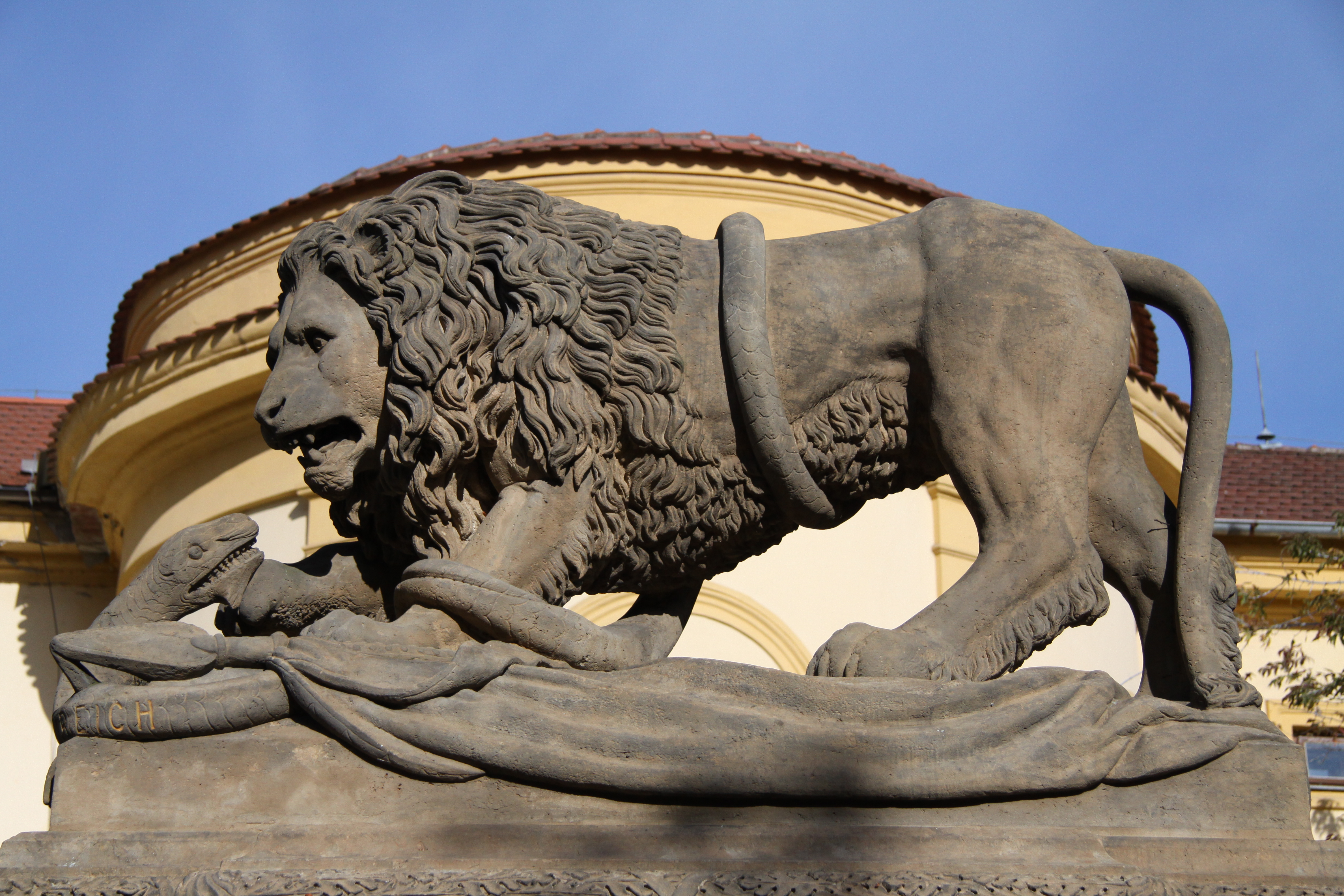 Monument to soldiers of Písek killed in the battles of Melegnano and Solferino in Italy in 1859 situated in town Písek, Písek District, Czech Republic